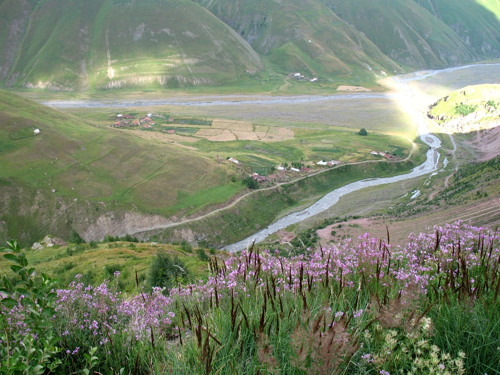 Truso valley